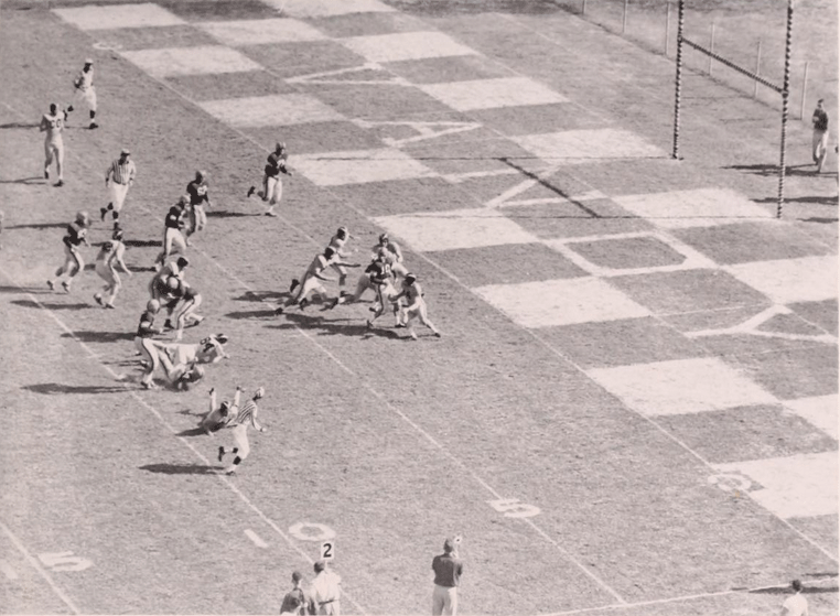 Ole Miss about to score on Vanderbilt in their 1953 game. Ole Miss won, 28-6.